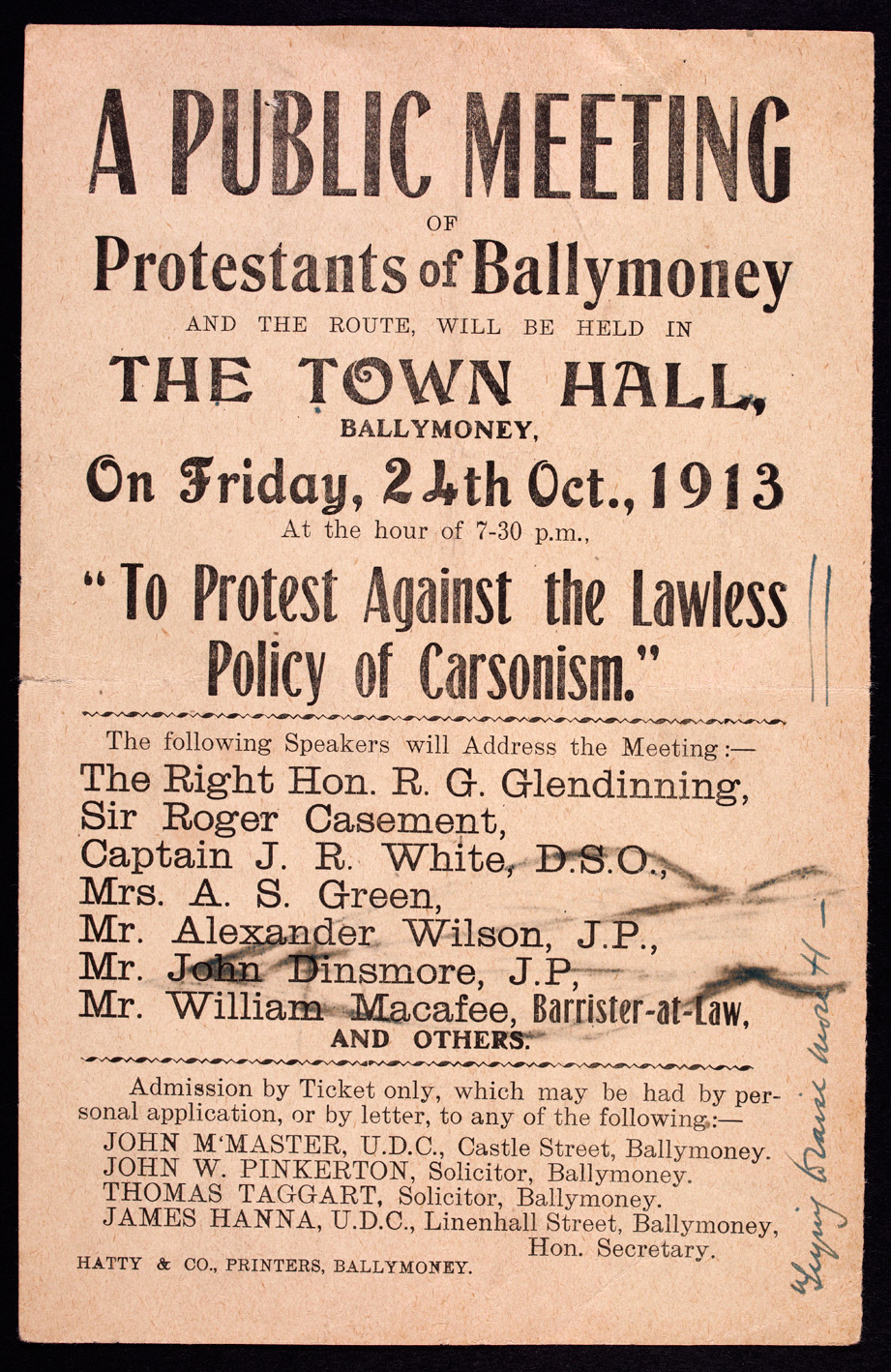 This meeting in Ballymoney, Co. Antrim - which took place 100 years ago today - was organised by the Alternative Ulster Covenant. Apparently it was a very important meeting. We have no information about it, so perhaps one of you might be interested in doing a wee bit of background research for us (on any aspect)? Date: Friday, 24 October 1913 Printed by: Hatty & Co., Ballymoney Size: 22 x 14 cm NLI Ref.: EPH B206